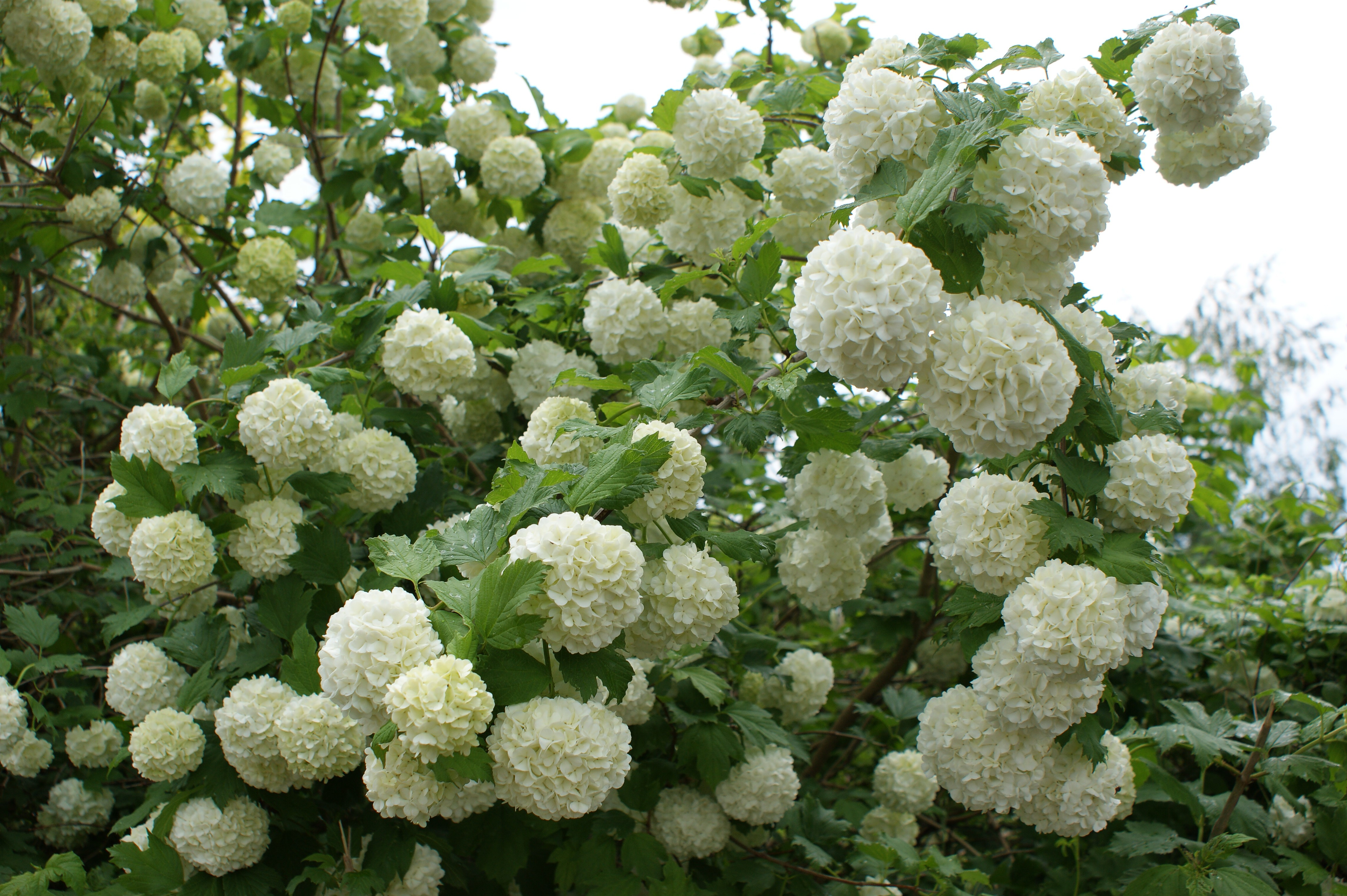 Viburnum opulus 'Roseum'